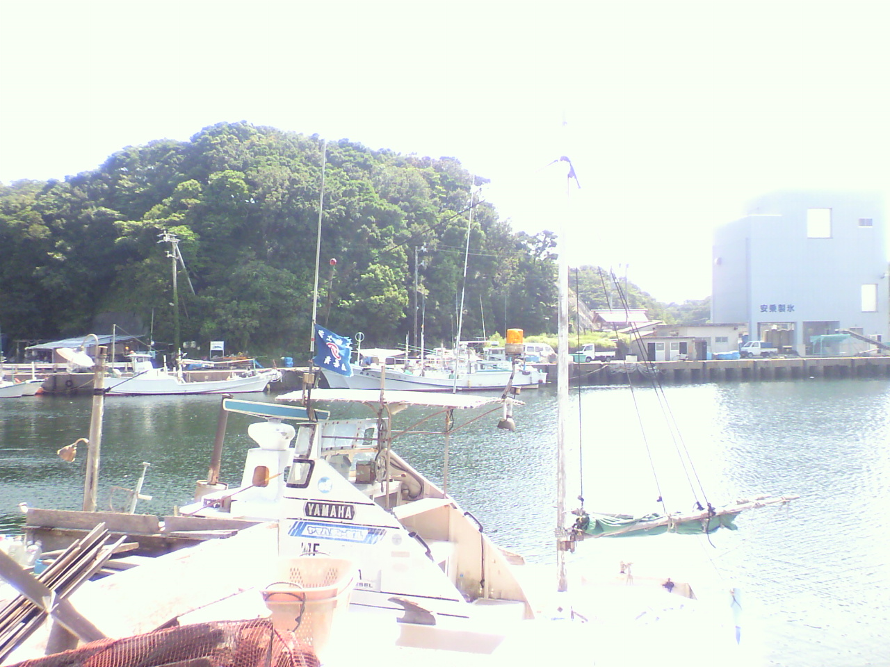 This is the Anori Fish Port in Shima, Mie, Japan.